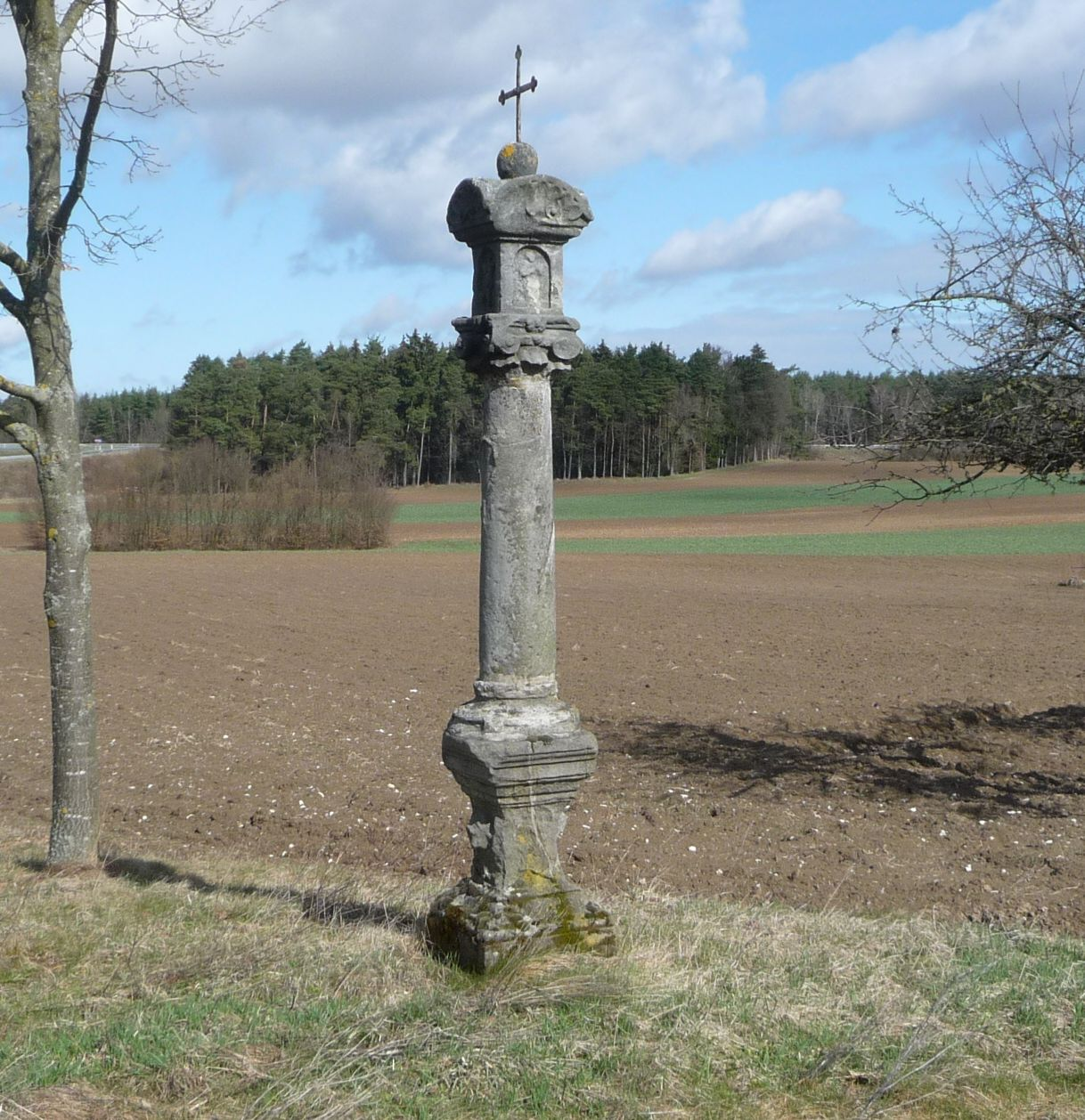 Wotzendorf